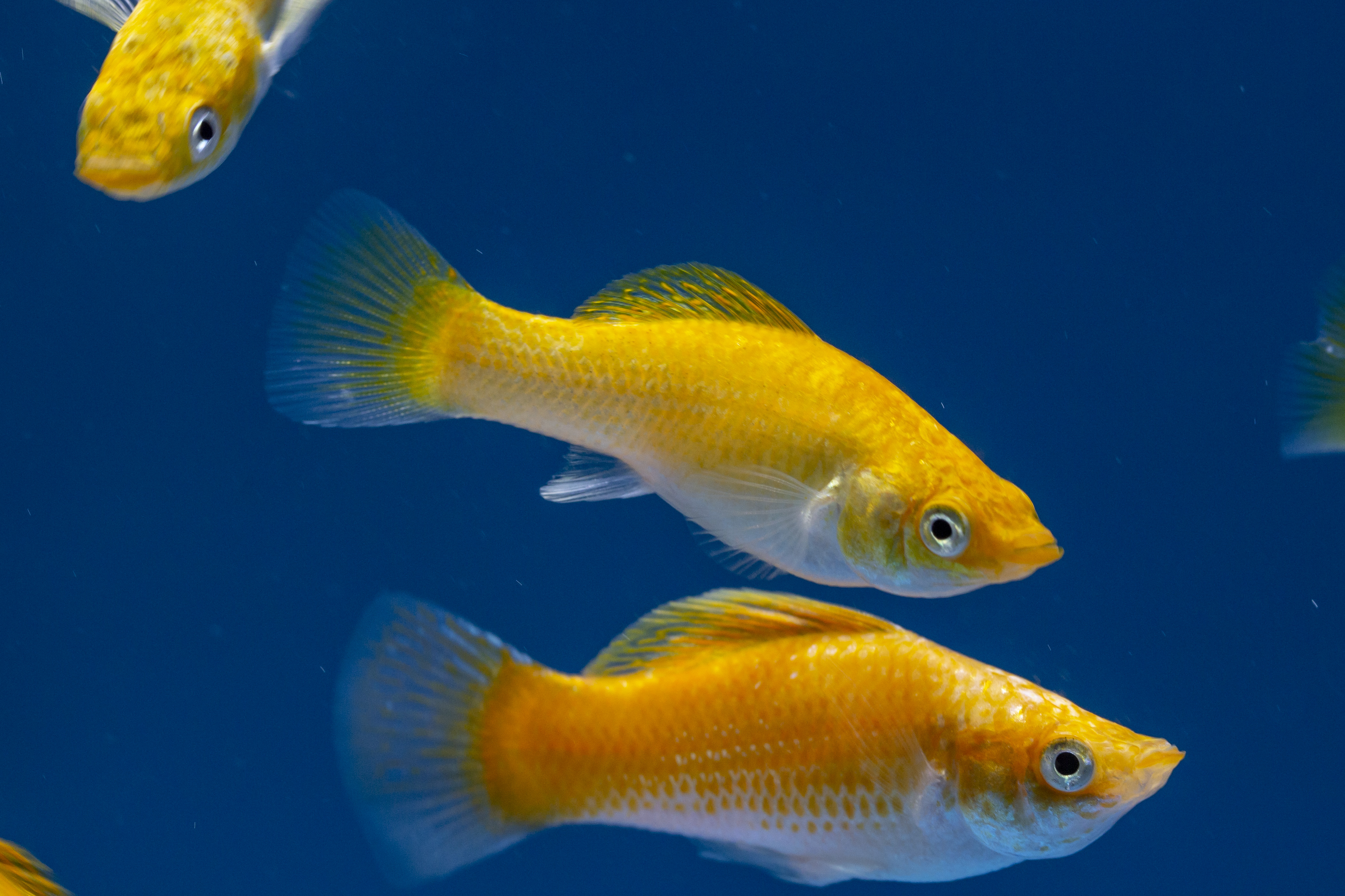 Neon Orange Molly Fish